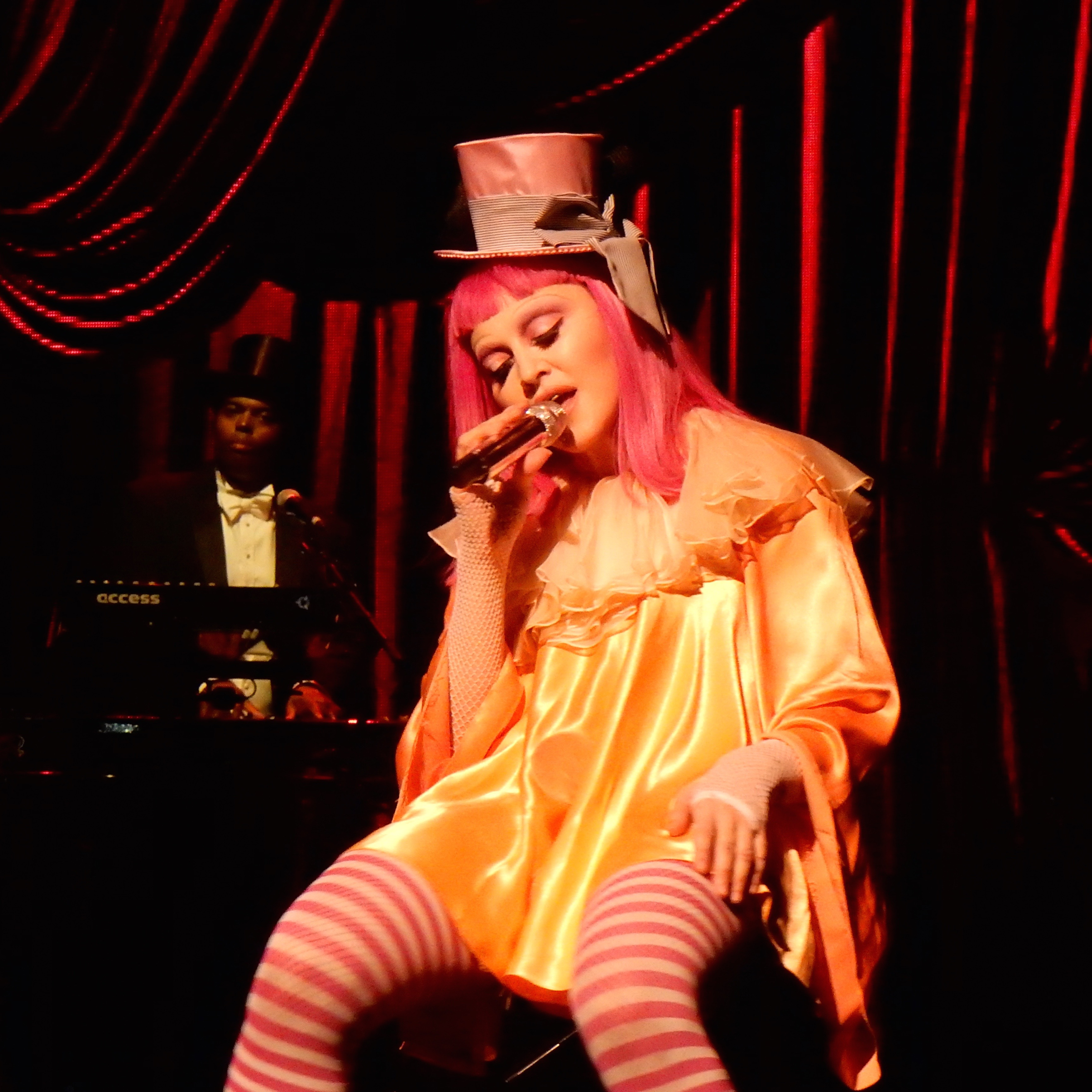 Special fan only show at The Forum, Melbourne, 10 March 2016